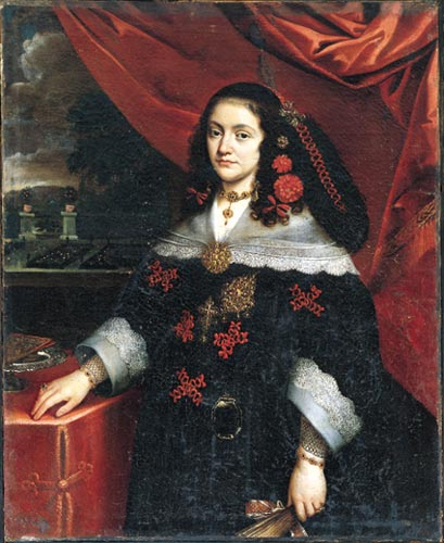 Portrait of a Lady